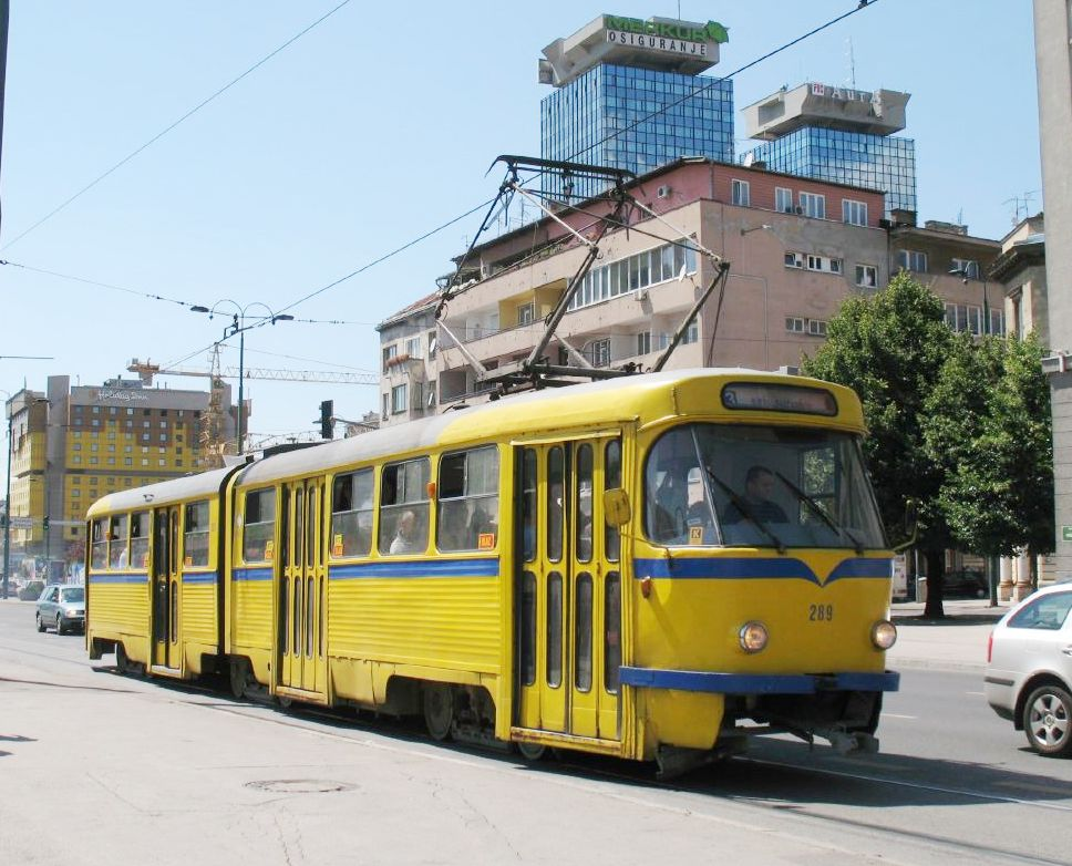 Tatra K2 tram in Sarajevo, Bosnia and Herzegovina